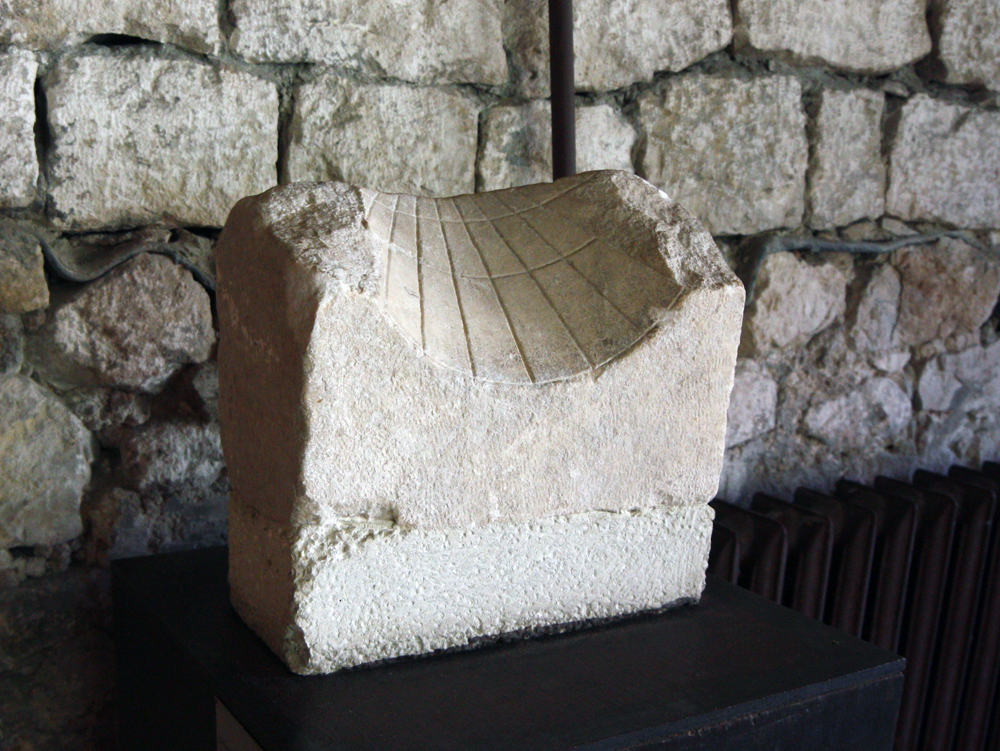 Ancient sundial from Marcianopolis, Museum of Mosaicas, Devnya, Bulgaria